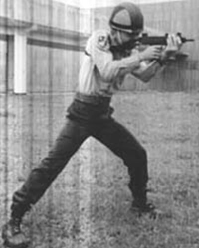 Type 77 Submachine Gun Firing Stance, as demonstrated by the Republic of China Military Police